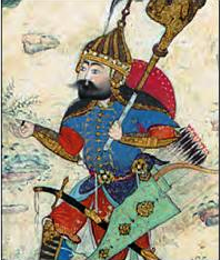 Painting of Giv in The Shahnama of Shah Tahmasp